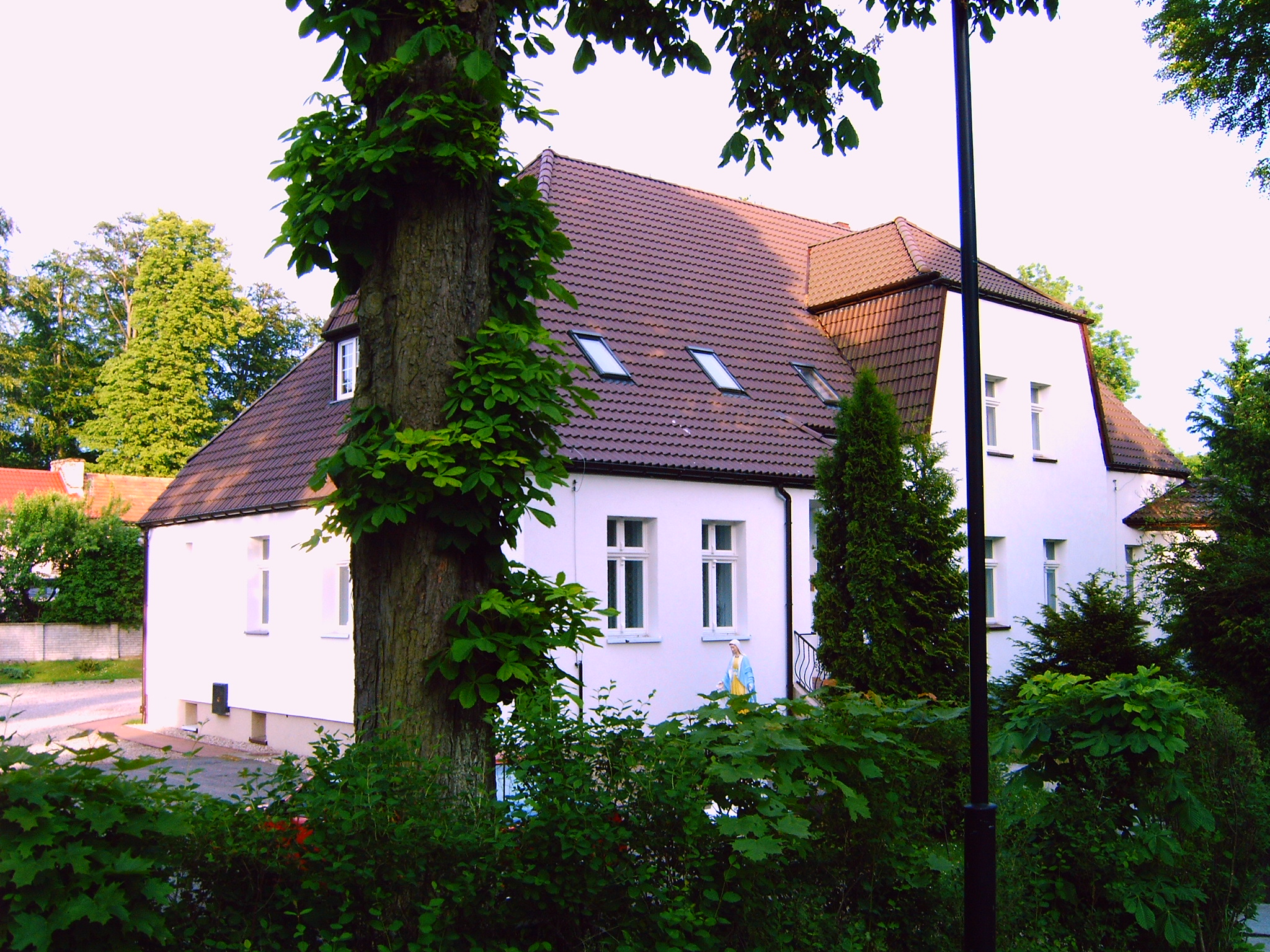 Poland, Mielno, Rectory